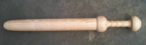 Wooden gladius in oak by Historic Arts Carpentry based on finds displayed at arbeia roman fort